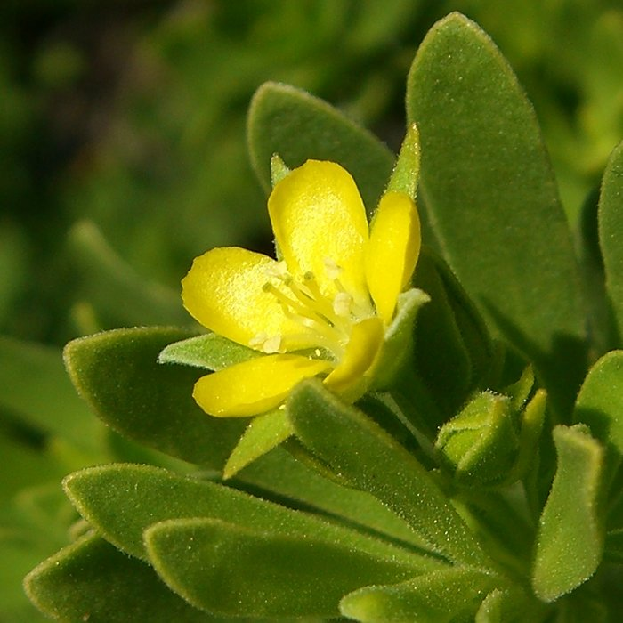 Scientific Name: Suriana maritima L. Common Name: Bay Cedar Certainty: positive (notes) Location: Florida Keys; Middle Keys; Pigeon Key Date: 20061228